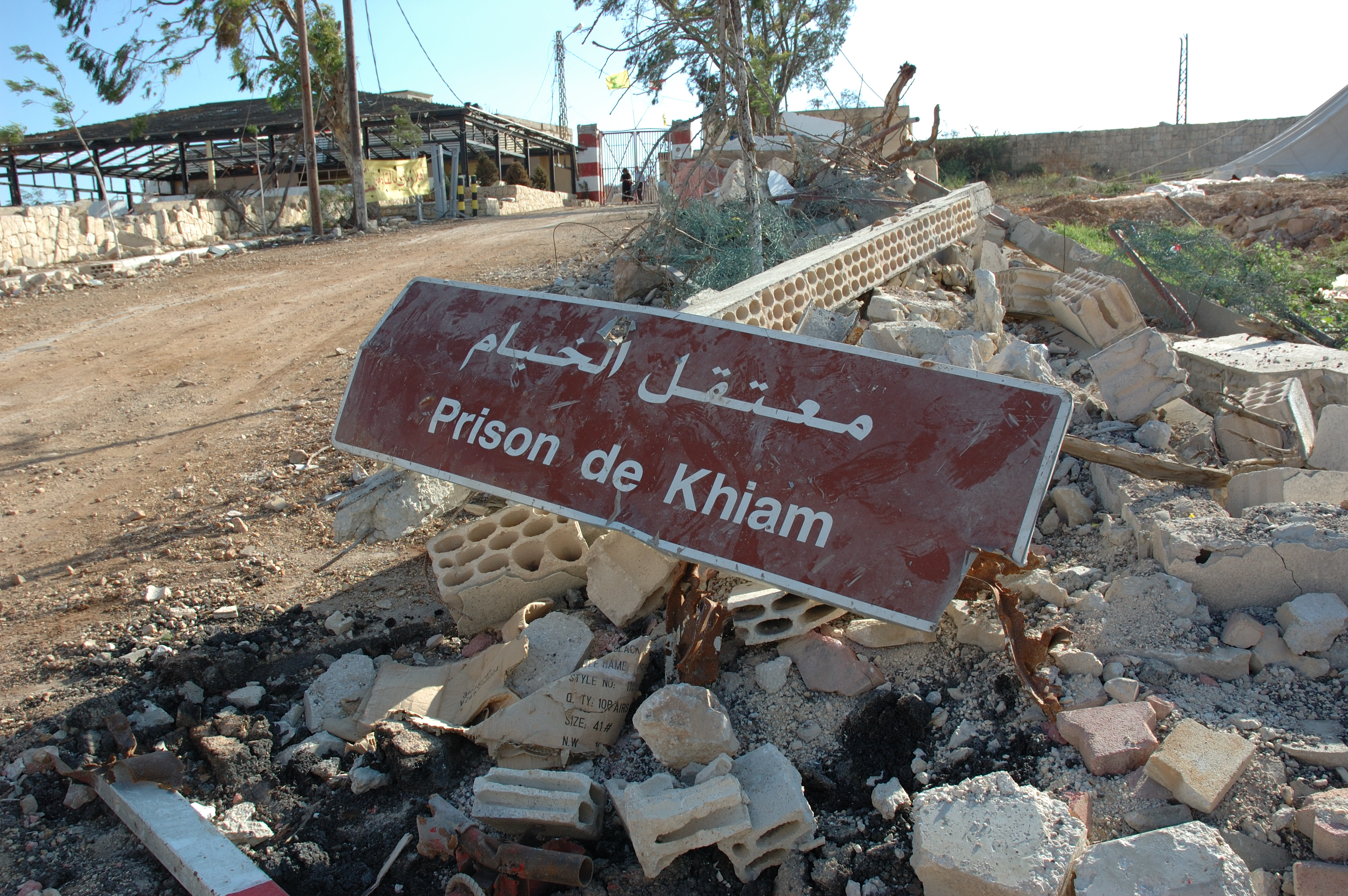 According to the director the museum was not used for any military purpose. It is his opion that the bombing was out of revenge and to remove the physical evidence of what happened at the prison.